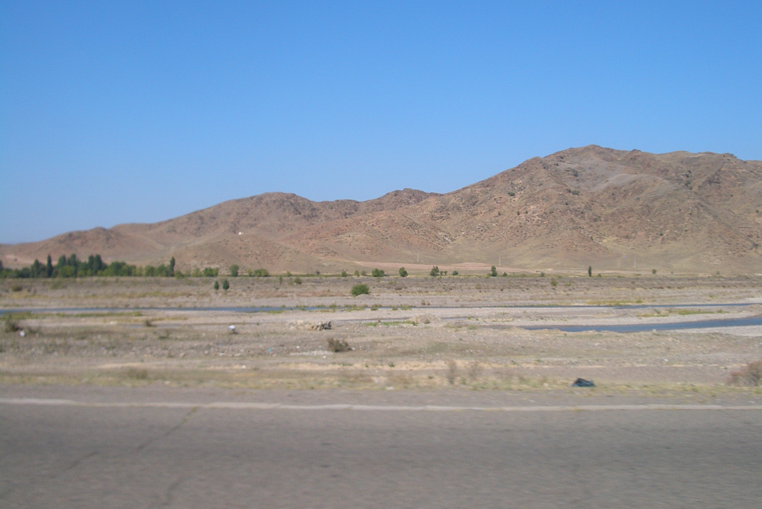 Looking across the Chu from Kyrgyzstan's Chuy Province (the northern Bishkek-Tokmak highway) into Kazakhstan's Zhambyl Province (Korday District). Picture taken from the riverside highway (Tokmok-Kemin section, most likely)